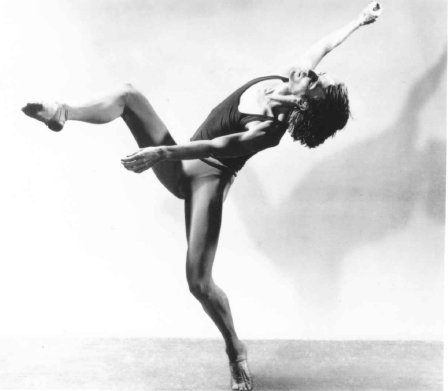 Bill Evans (dancer)